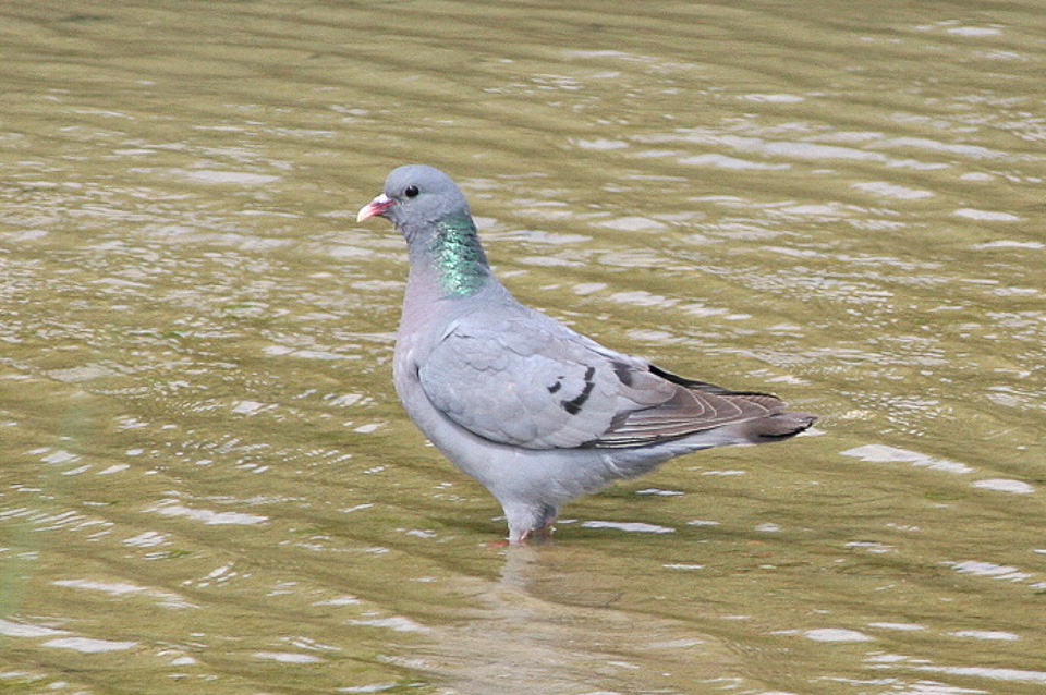 Stock Dove